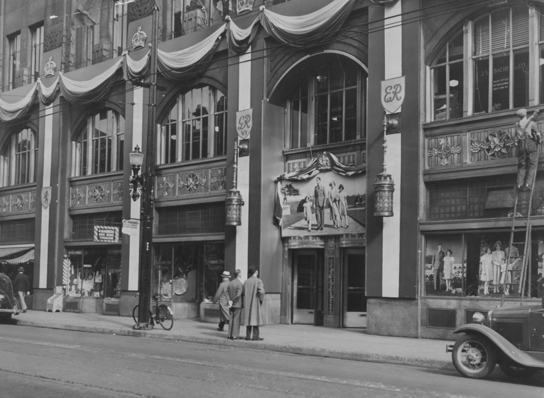 The Toronto Star building on King Street decorated for the 1939 royal tour of Canada. Images of the royal family adorn the building façade.